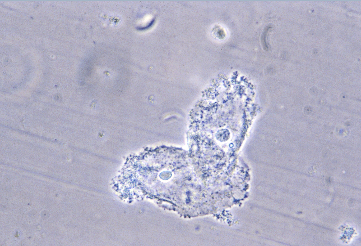 This photomicrograph reveals bacteria adhering to vaginal epithelial cells known as "clue cells". "Clue cells" are epithelial cells that have had bacteria adhere to their surface, obscuring their borders, and imparting a stippled appearance. The presence of such clue cells is a sign that the patient has bacterial vaginosis.